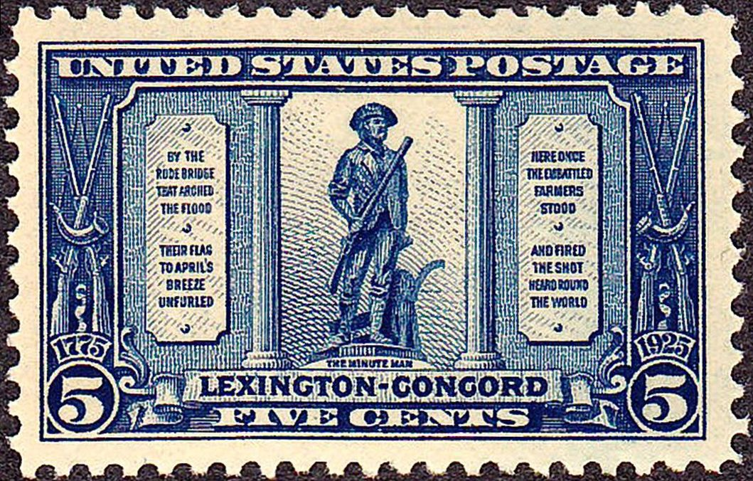 US Postage Stamp commemorating the Lexington-Concord battles; One of a set of three; Issued in 1925.